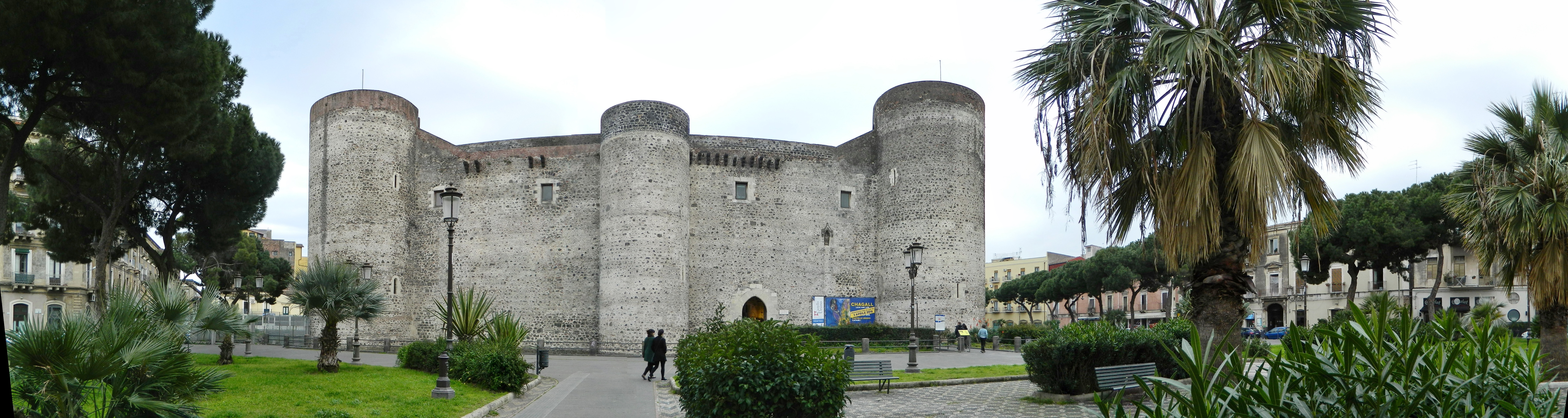 Castello Ursino (1239-50) Federico II di Svevia